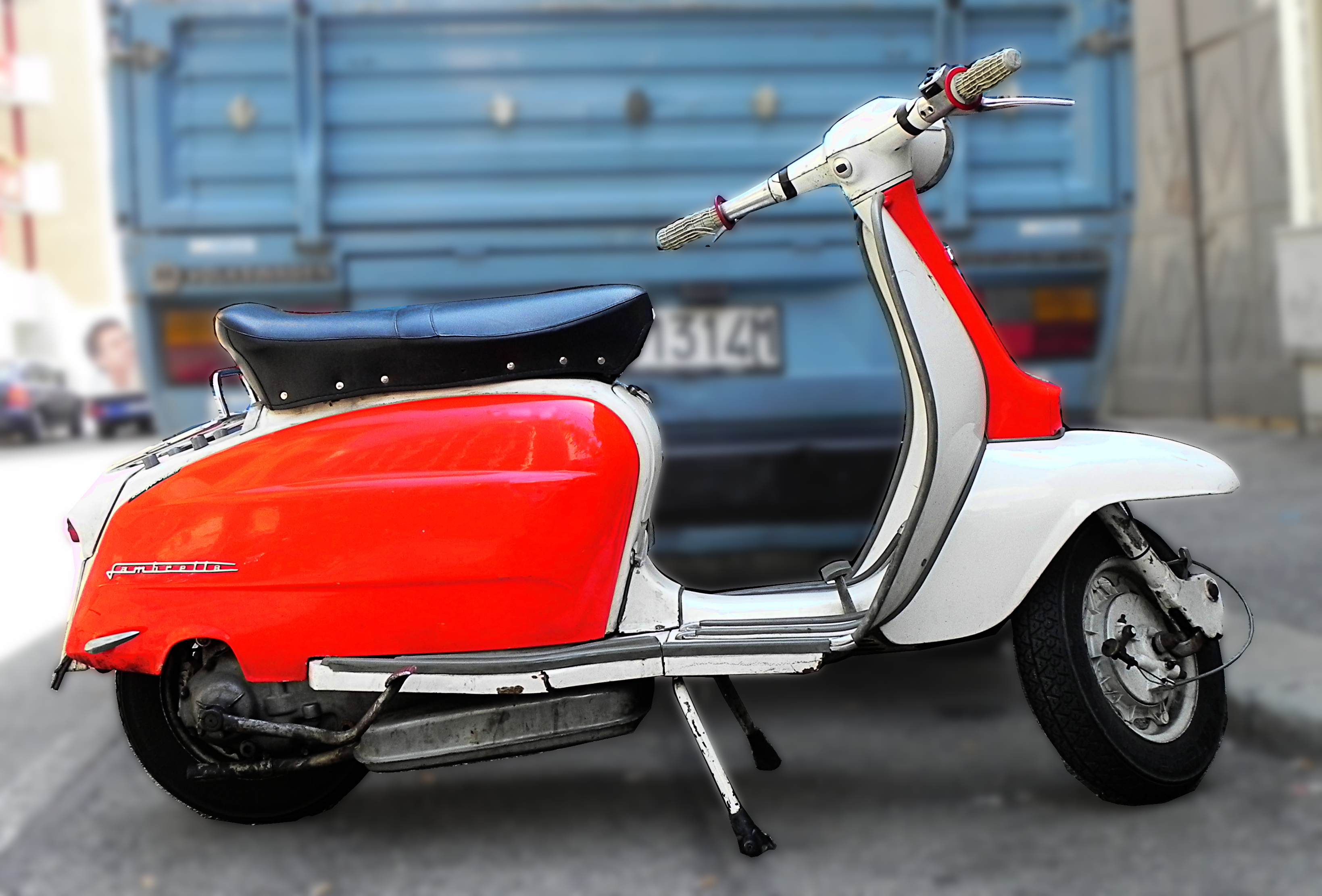 Innocenti Lambretta 125 - mid 60s